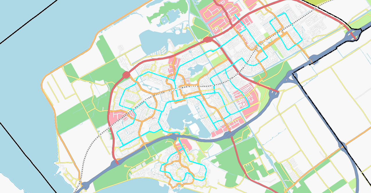 This map may be incomplete, and may contain errors. Don't rely solely on it for navigation.